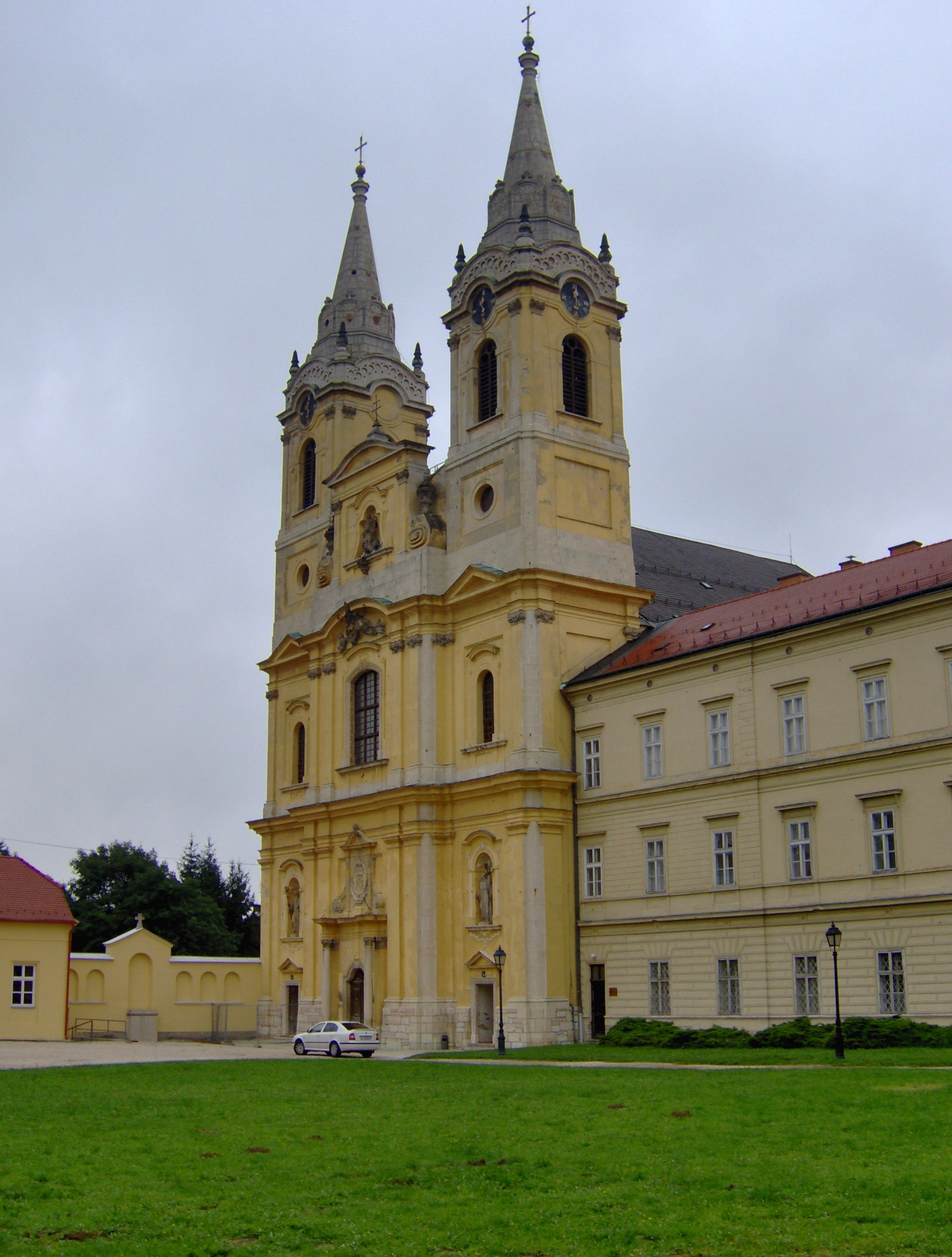 Church, Cistercian Abbey of Zirc